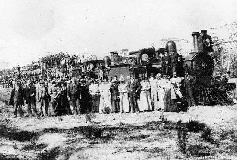 WAGR P class steam locomotive no. P63 and a WAGR G class locomotive at Hines Hill with a crowd in the foreground, and another crowd standing on top of some of the coaches. The two locomotives are at the head of the Ministerial Special that was also the first train to Kalgoorlie, Western Australia.